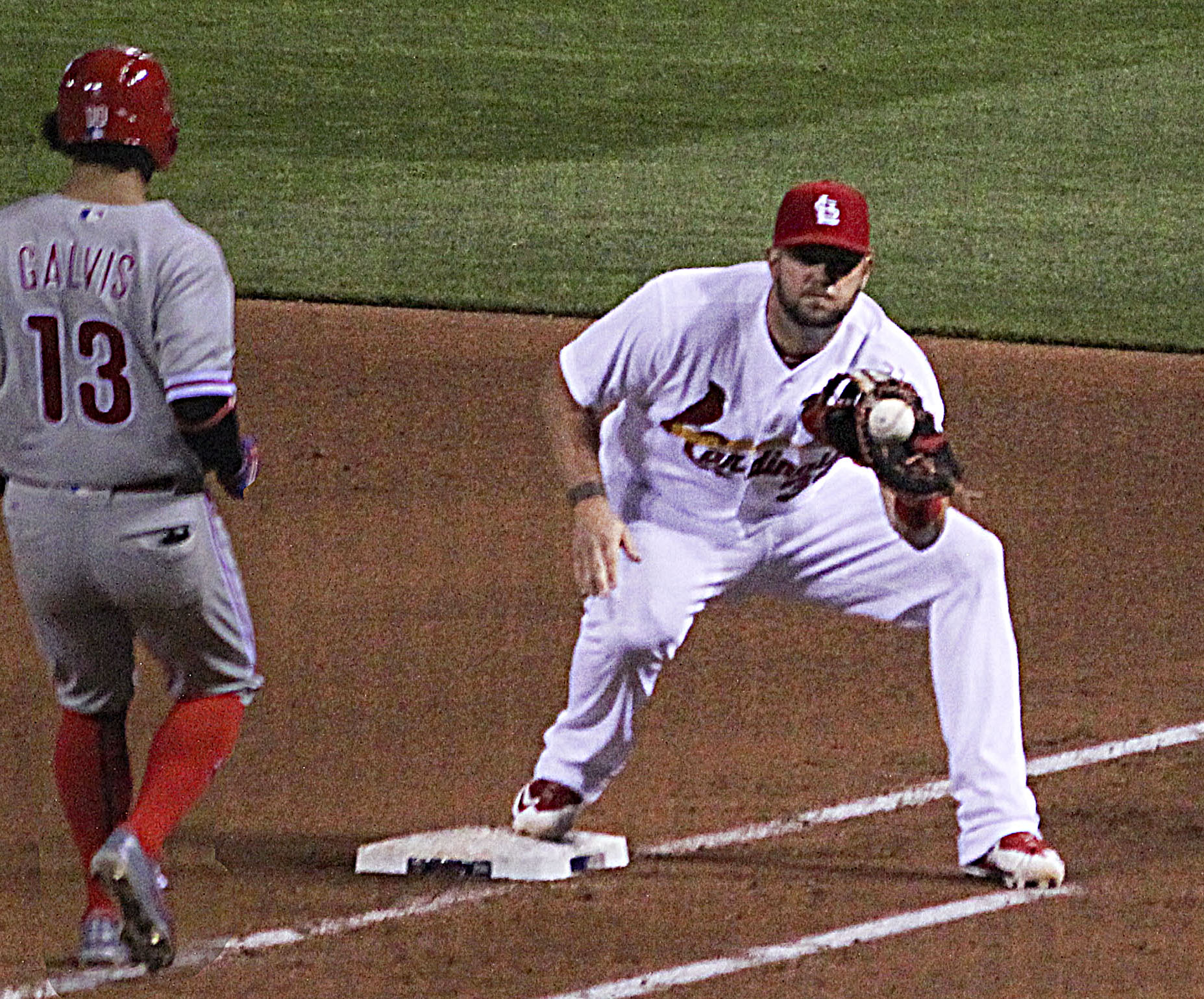 Cardinals Matt Adams.